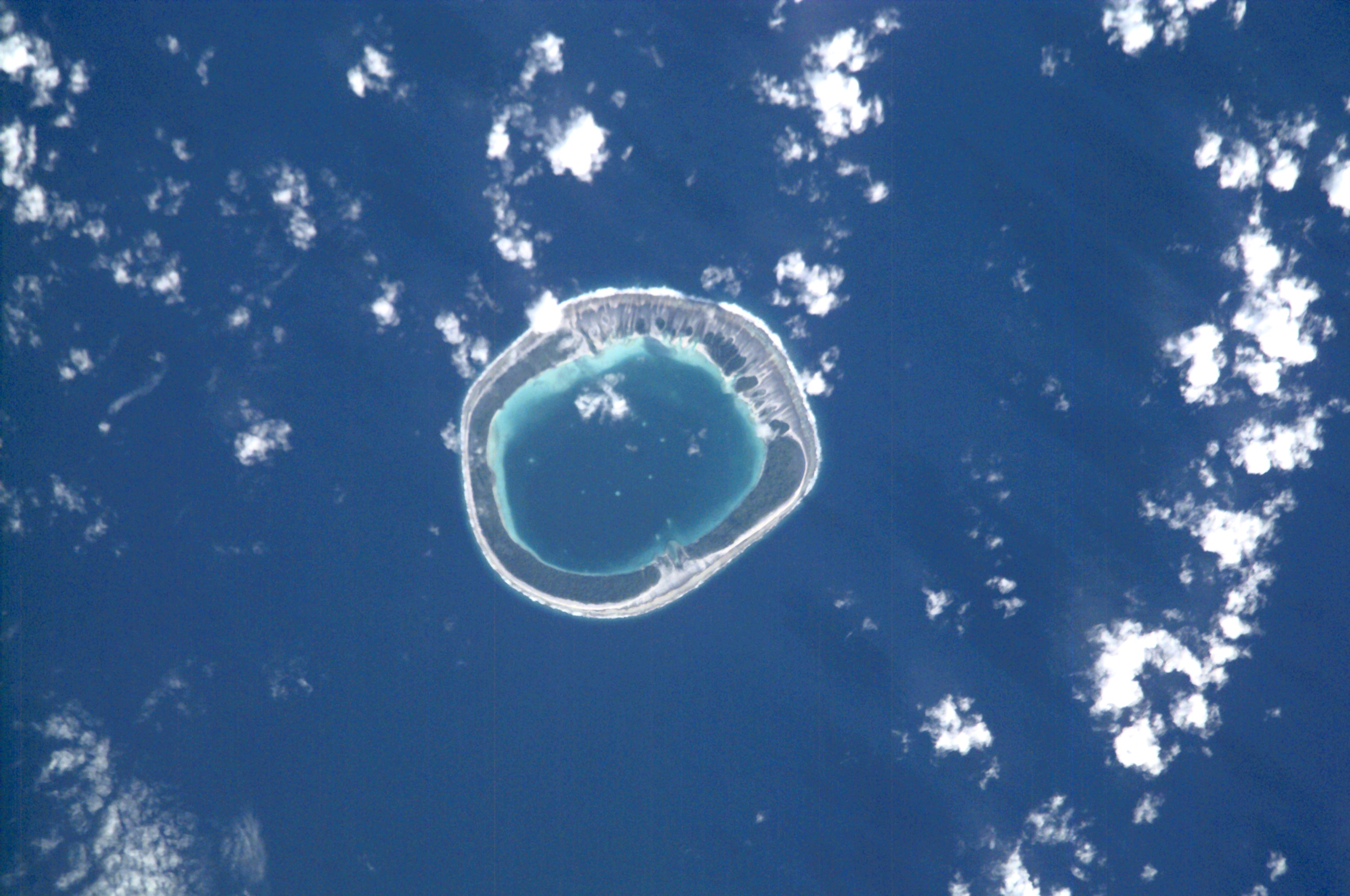 NASA astronaut image of Vahanga Atoll (Actéon Group, Tuamotu Archipelago, French Polynesia) in the Pacific Ocean